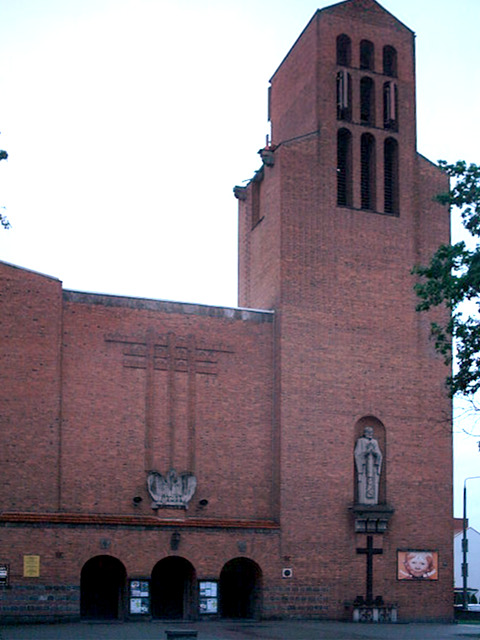 Corpus Christi church in Tuchola, Poland.